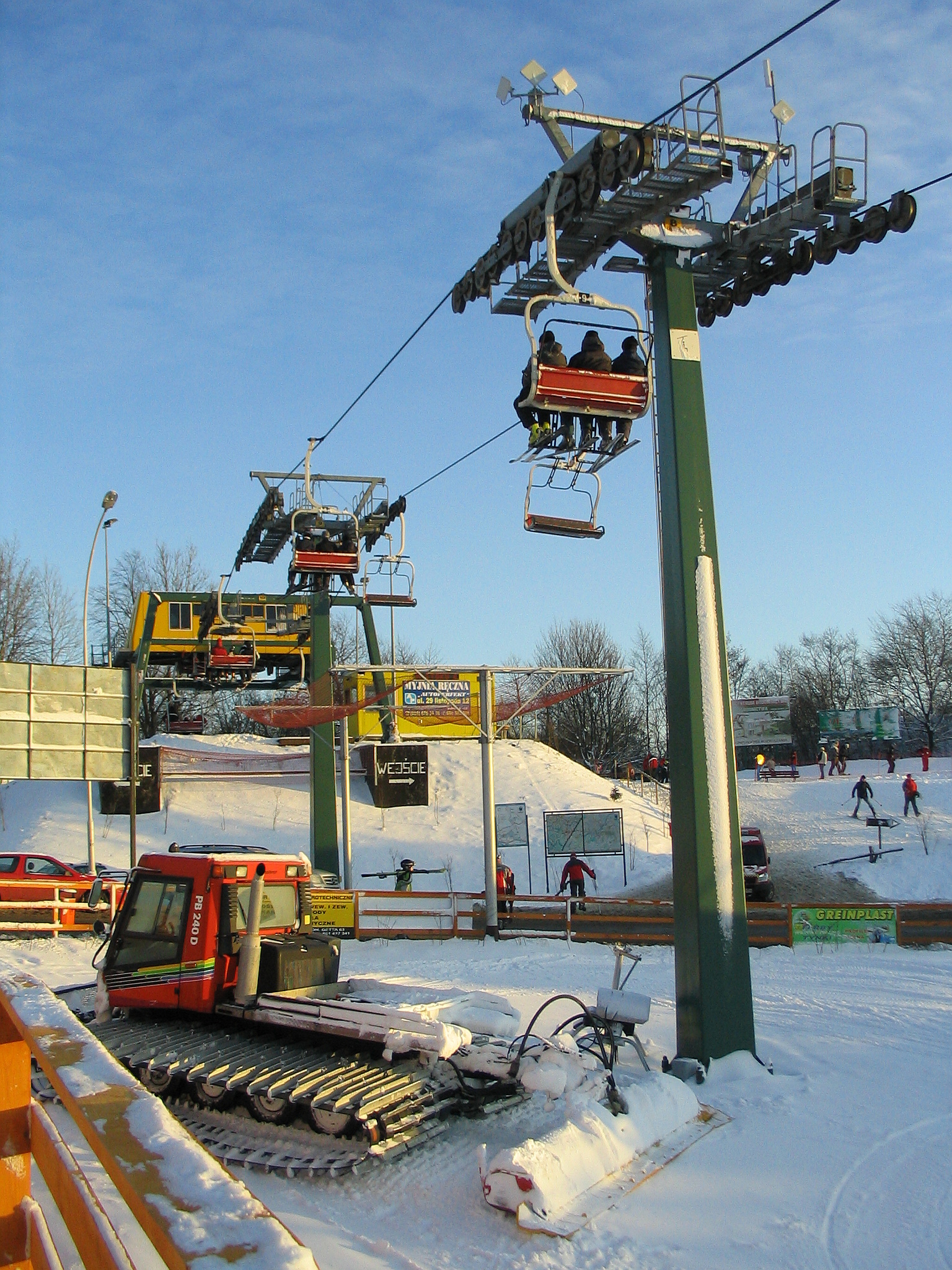 Ski slope in Przemyśl, Poland - Upper station